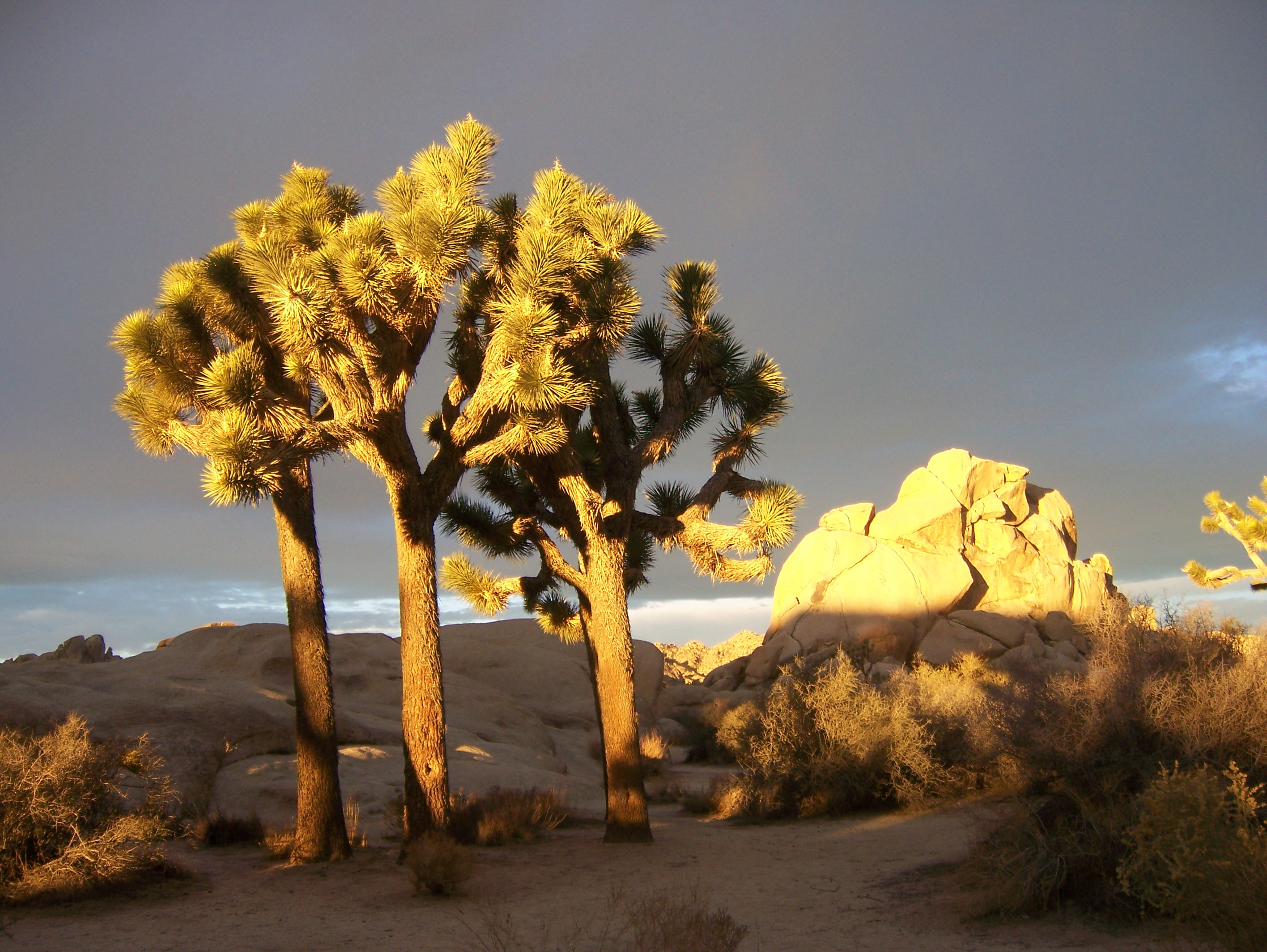 Joshua Trees (Yucca brevifolia) at sunrise in Joshua Tree National Park: Hidden Valley Campground